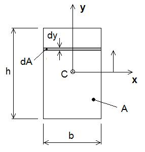 integration of rectangular section